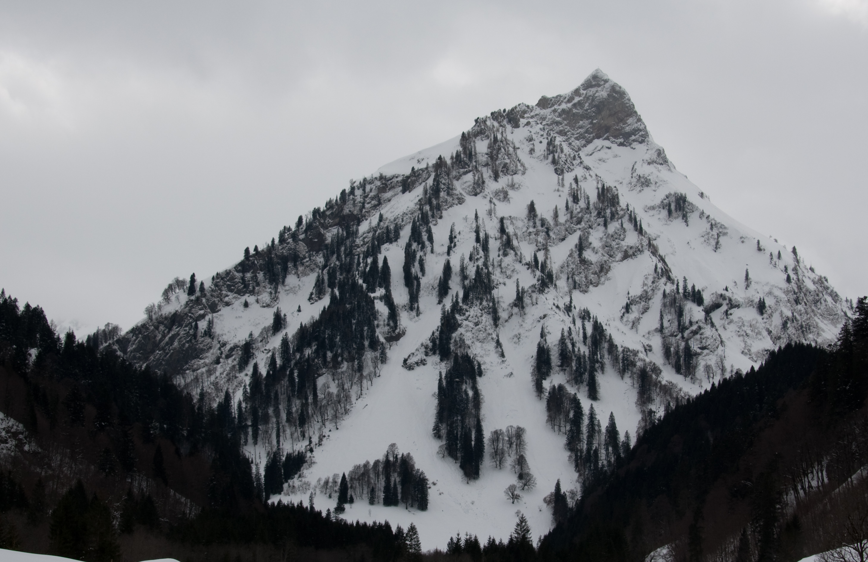 Mountain "Giebel" viewn from the Hinterstein Valley